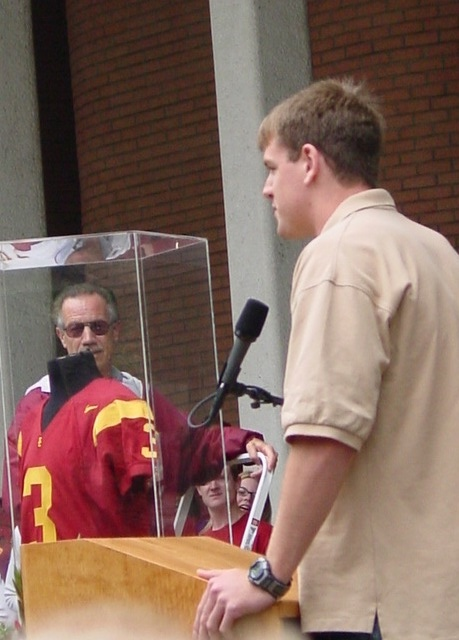 Carson Palmer with his retired Heisman Jersey at the 2003 USC Football awards ceremony on the USC campus. Taken by user Daveblack.